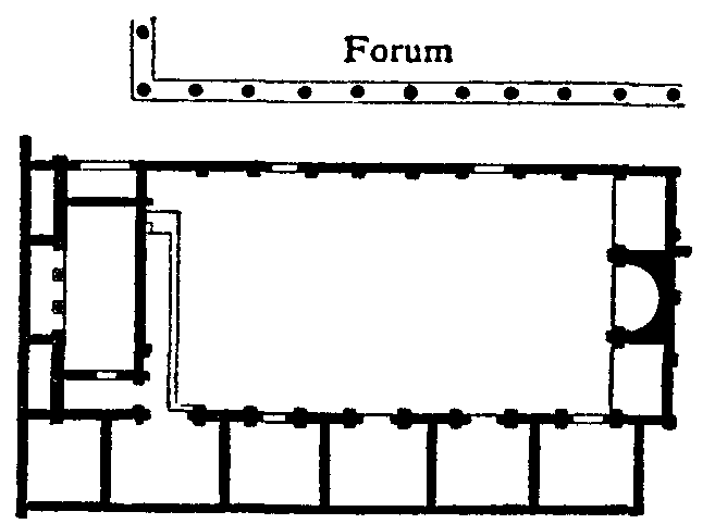 Illustration from 1911 Encyclopædia Britannica, article BASILICA. Fig. 6.—Plan of Basilica adjoining the Forum of the Roman city of Timgad, in North Africa.